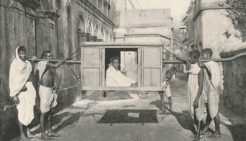 A palanquin in Calcutta. The missionaries usual method of travel around the country.